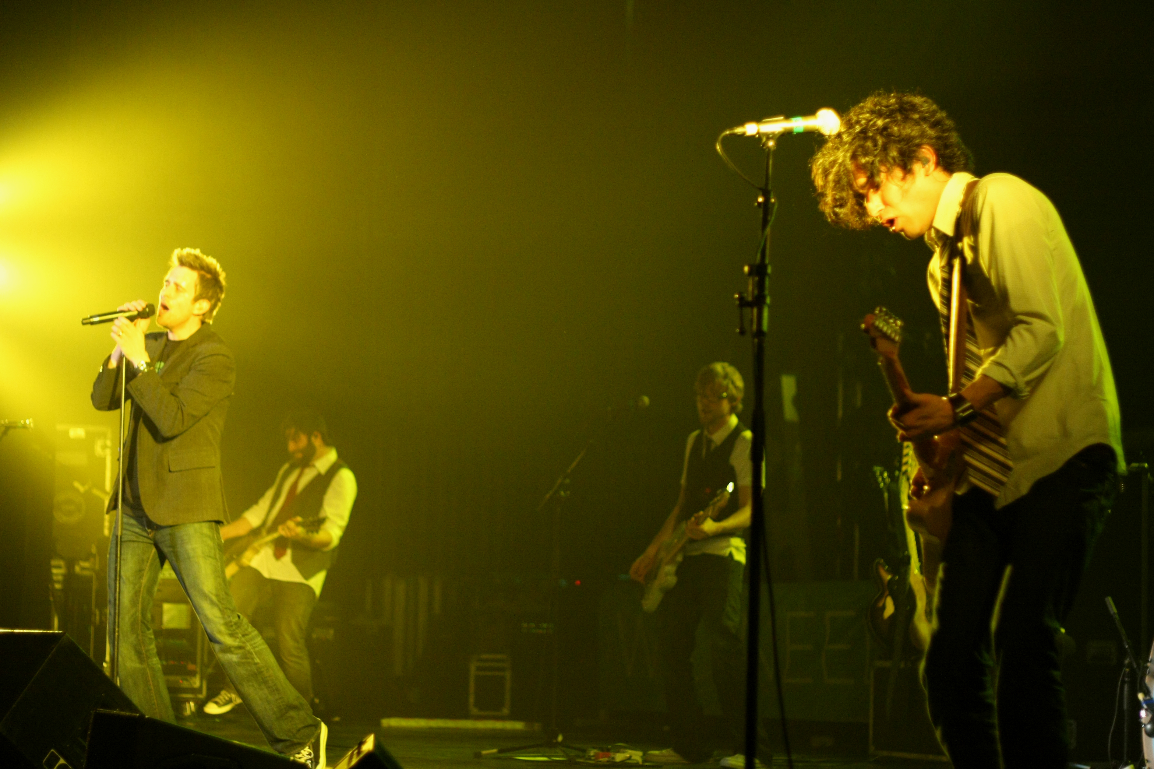 Christian band Sanctus Real in concert. From left to right: Matt Hammit, Pete Prevost, Dan Gartley, and Chris Rohman (drummer Mark Graalman not pictured).